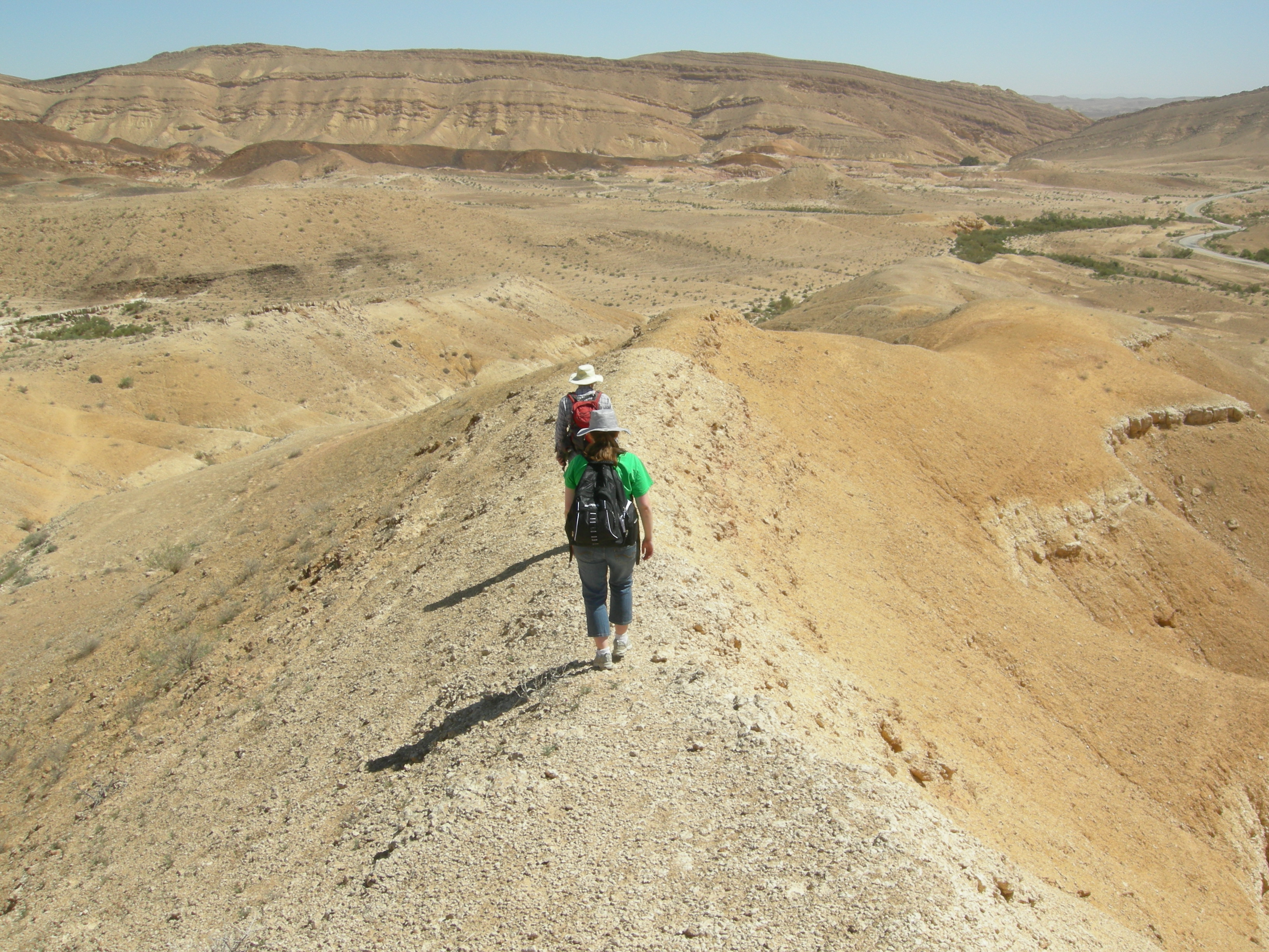 Jurassic sediments, Makhtesh Gadol, Negev Desert, Israel